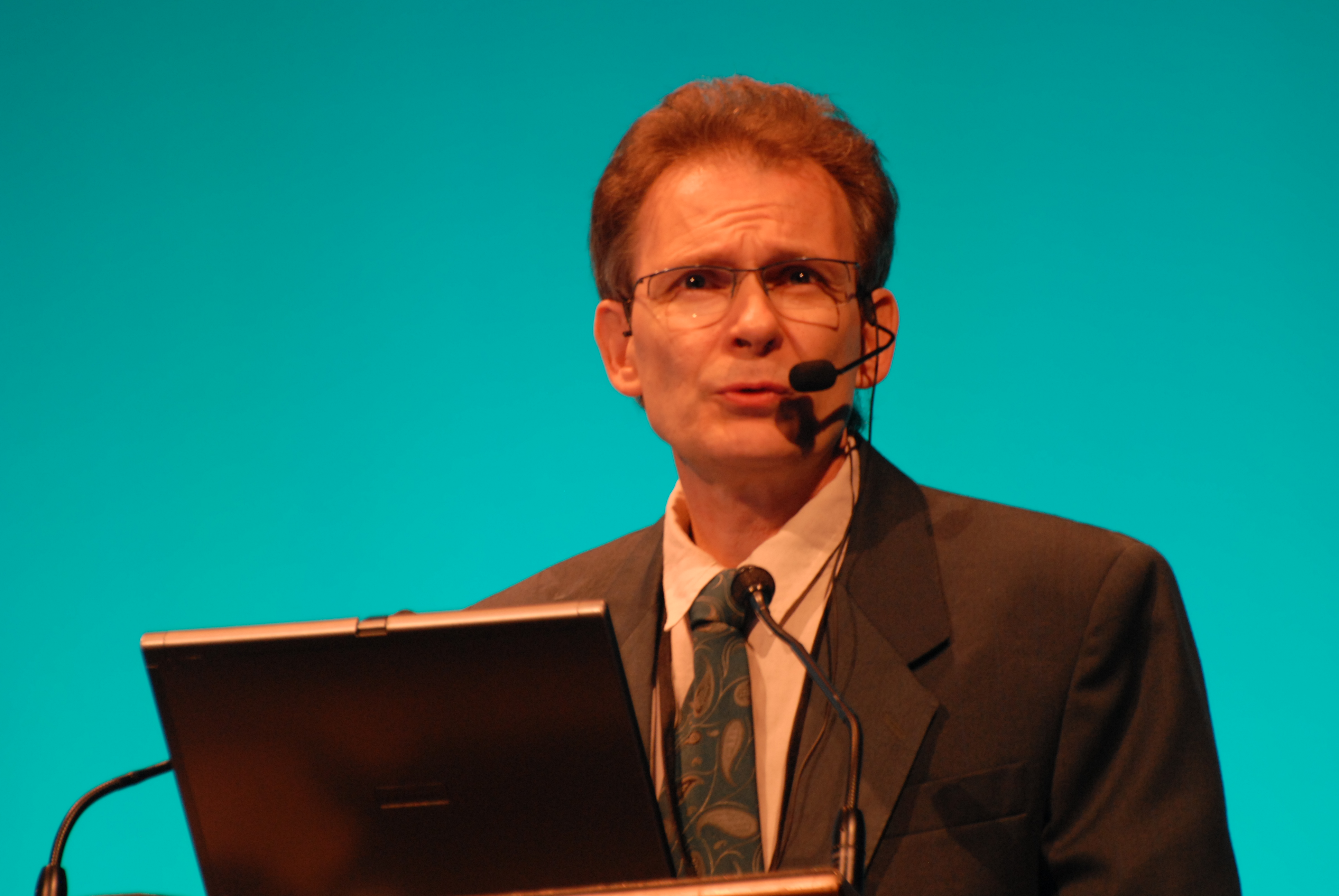 Jean-Louis Viovy at the 11th International Conference on Miniaturized Systems for Chemistry and Life Sciences (µTAS 2007 Conference).